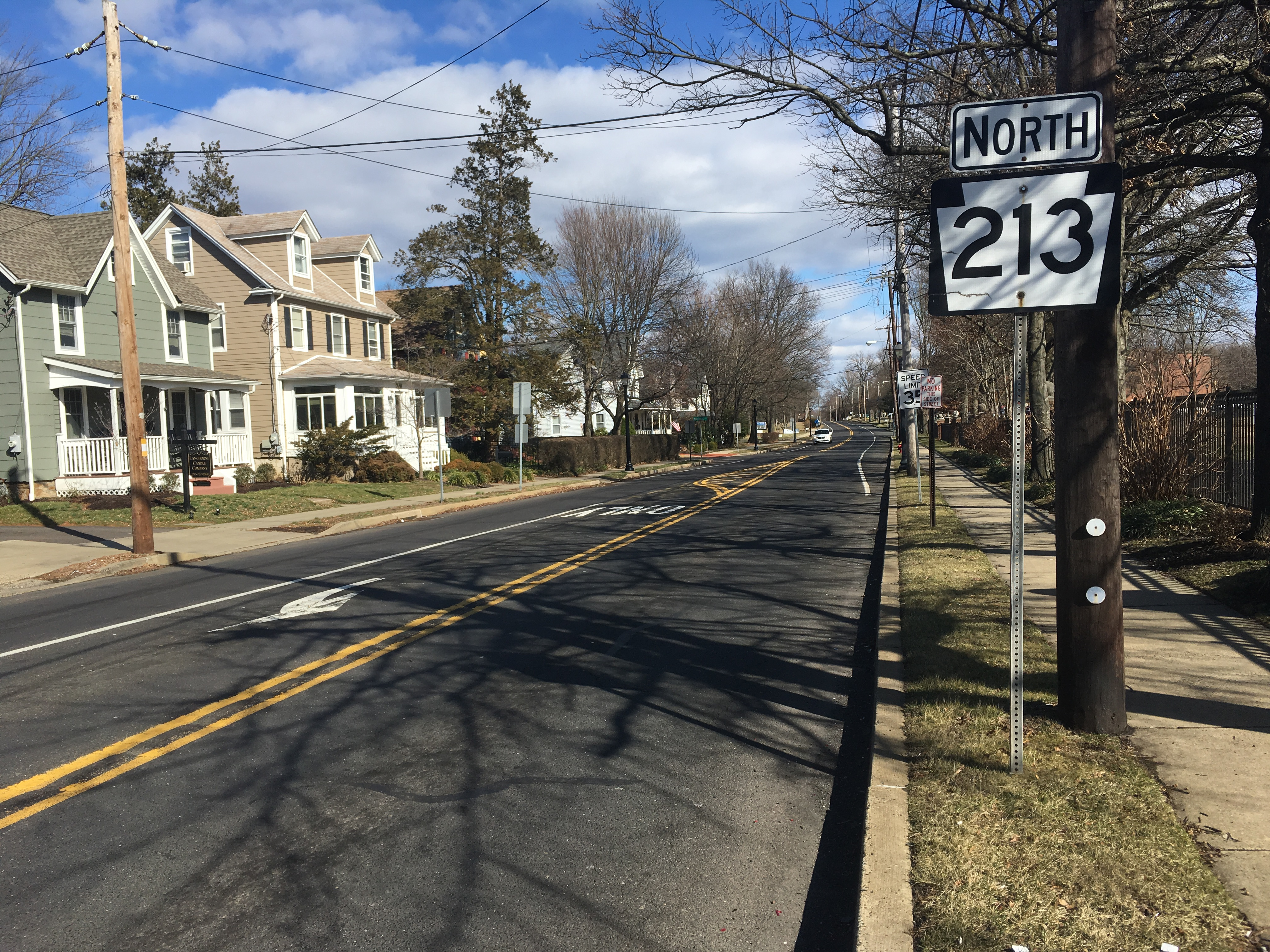 Northbound Pennsylvania Route 213 (Maple Avenue) past the intersection with Pennsylvania Route 413 (Pine Street) in Langhorne, Pennsylvania.